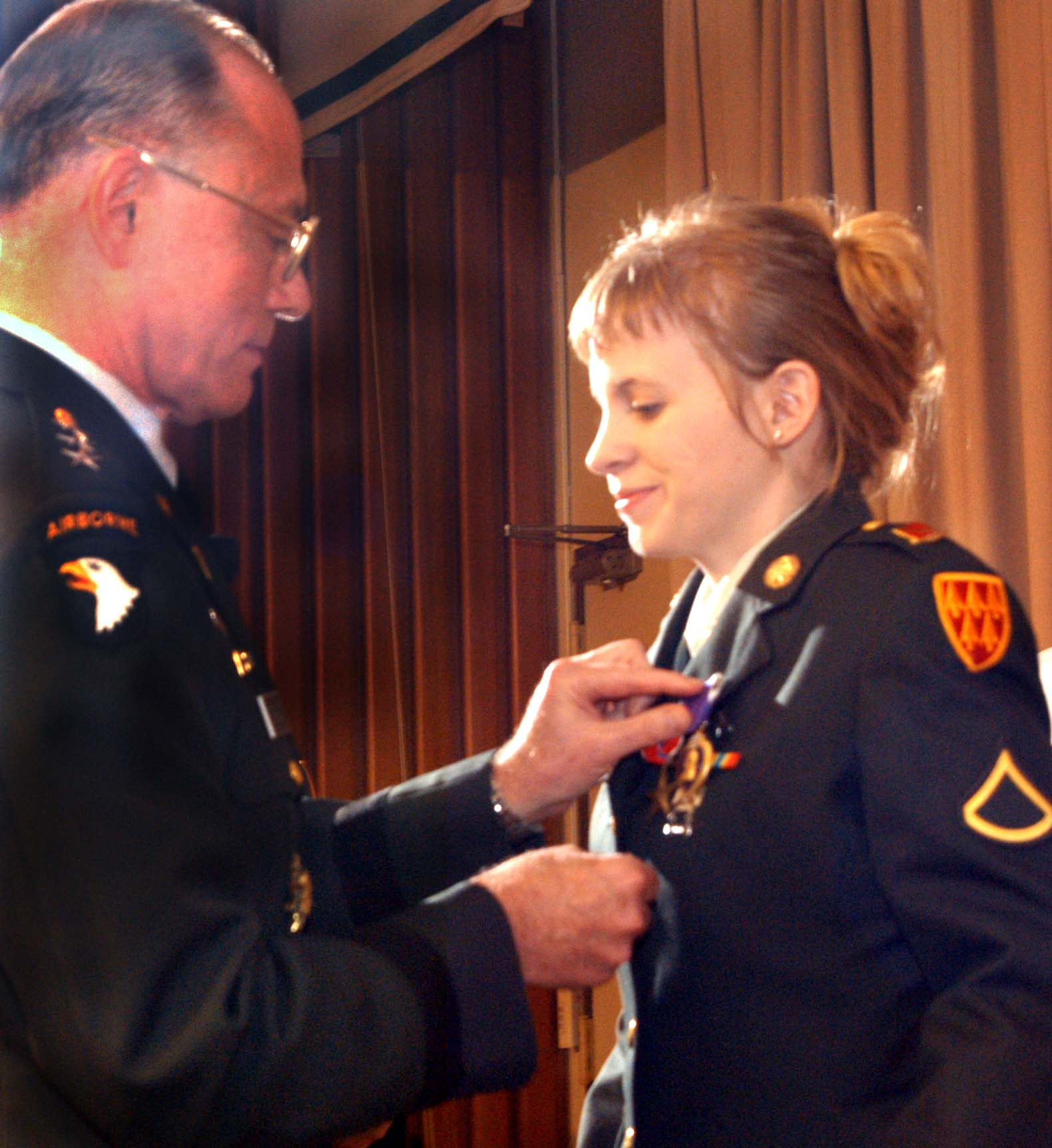 Jessica Lynch: the award presentation